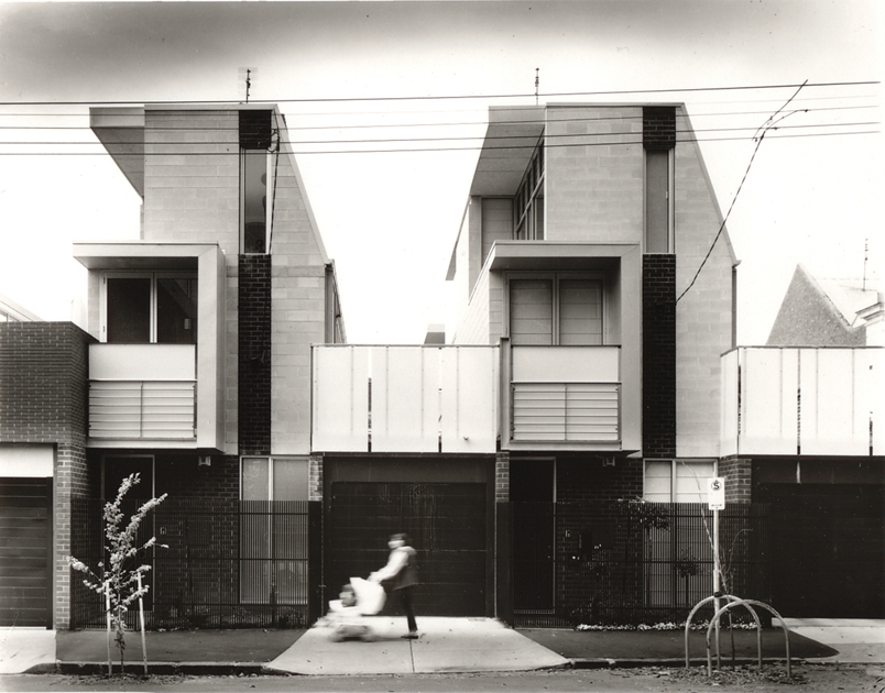 Napier Street Housing photo by Patrick Bingham-Hall